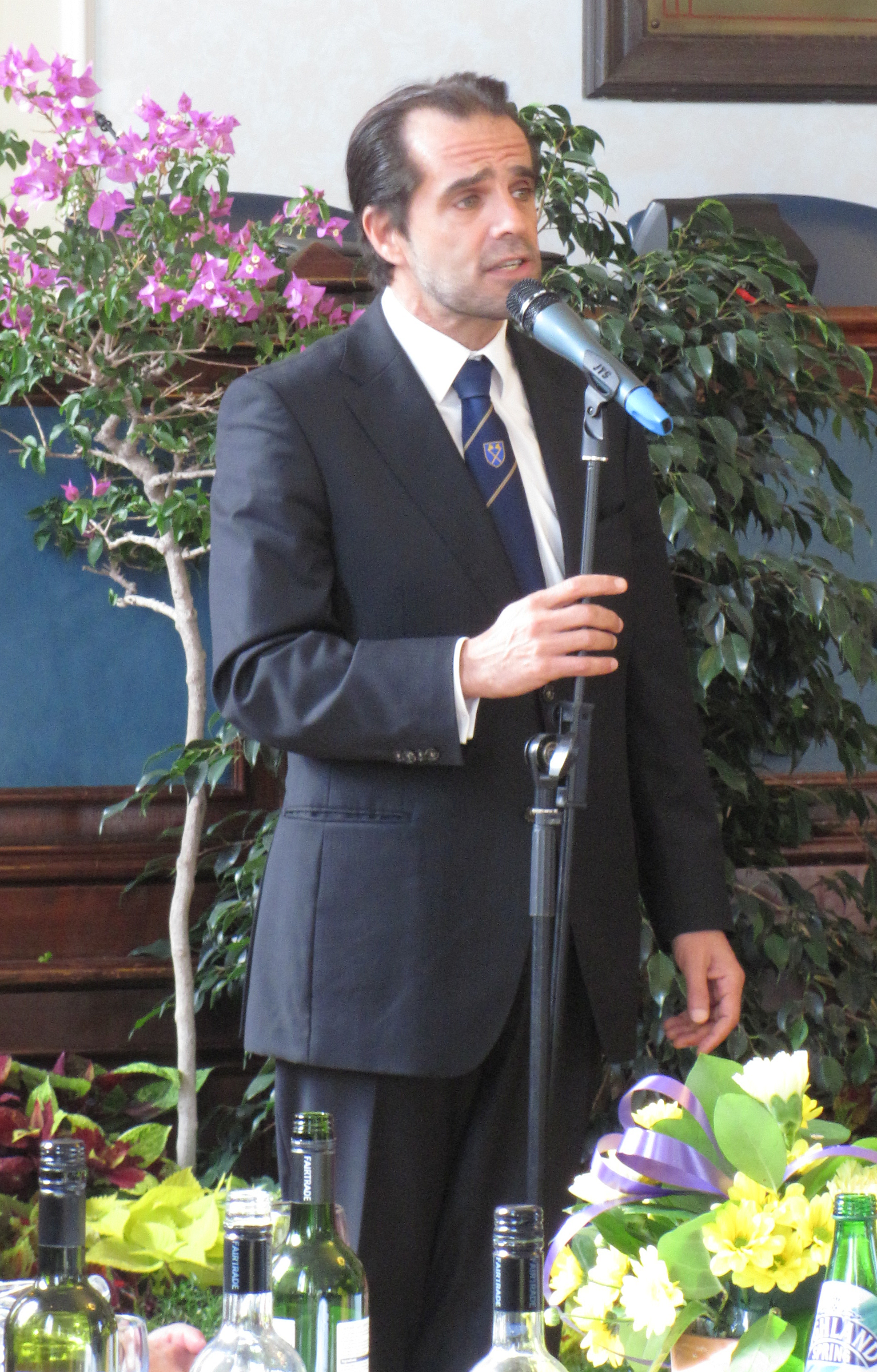 Town twinning ceremonies and celebrations for the twinning of Funchal and Saint Helier, 10 April 2012